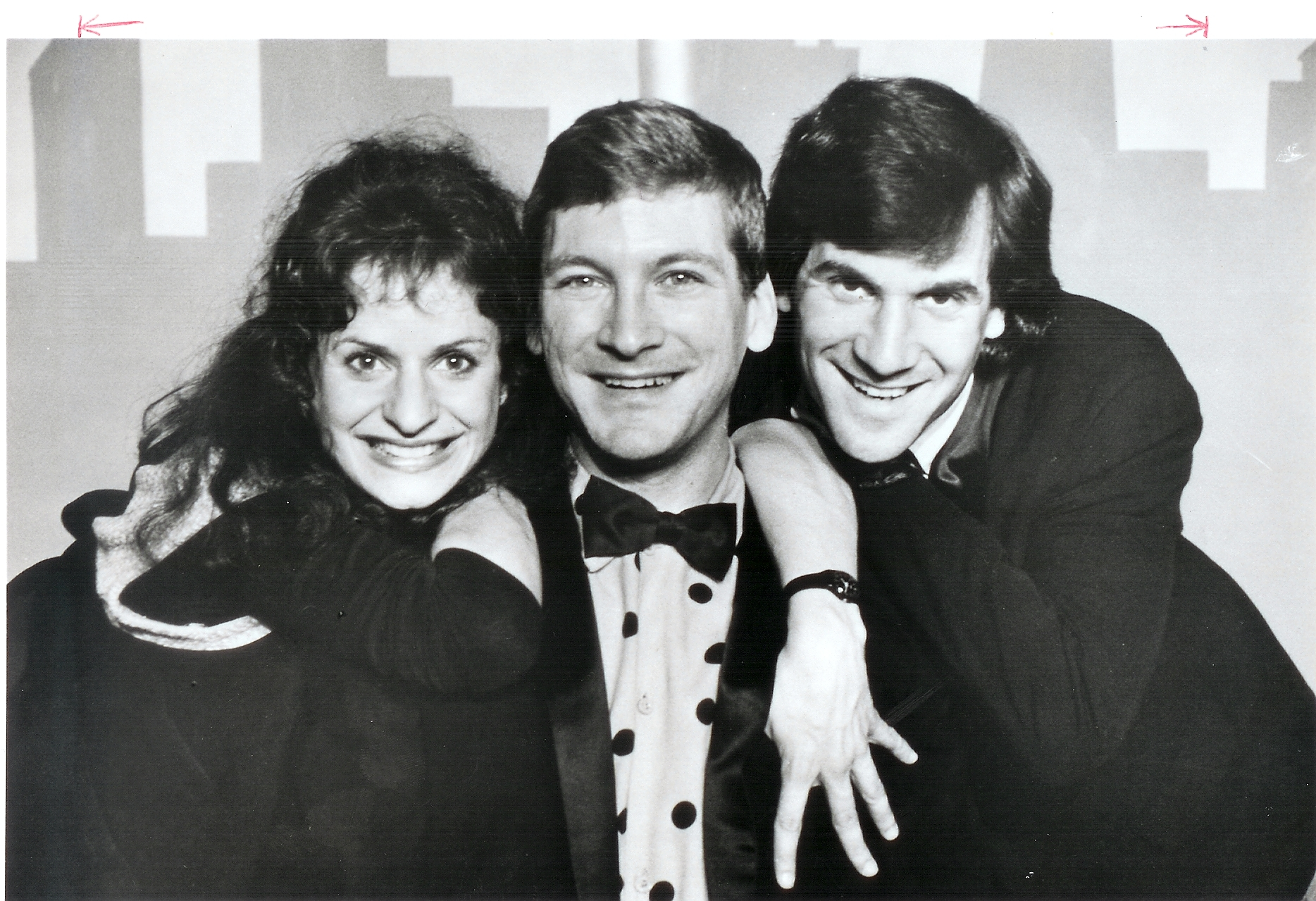 "Art, Ruth & Trudy" cast photo: Victoria Zielinski, Jamie Baron, Paul Barrosse (1986)